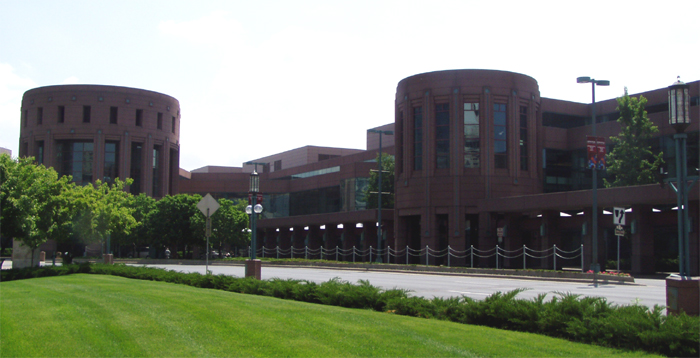 Minneapolis Convention Center, 2006